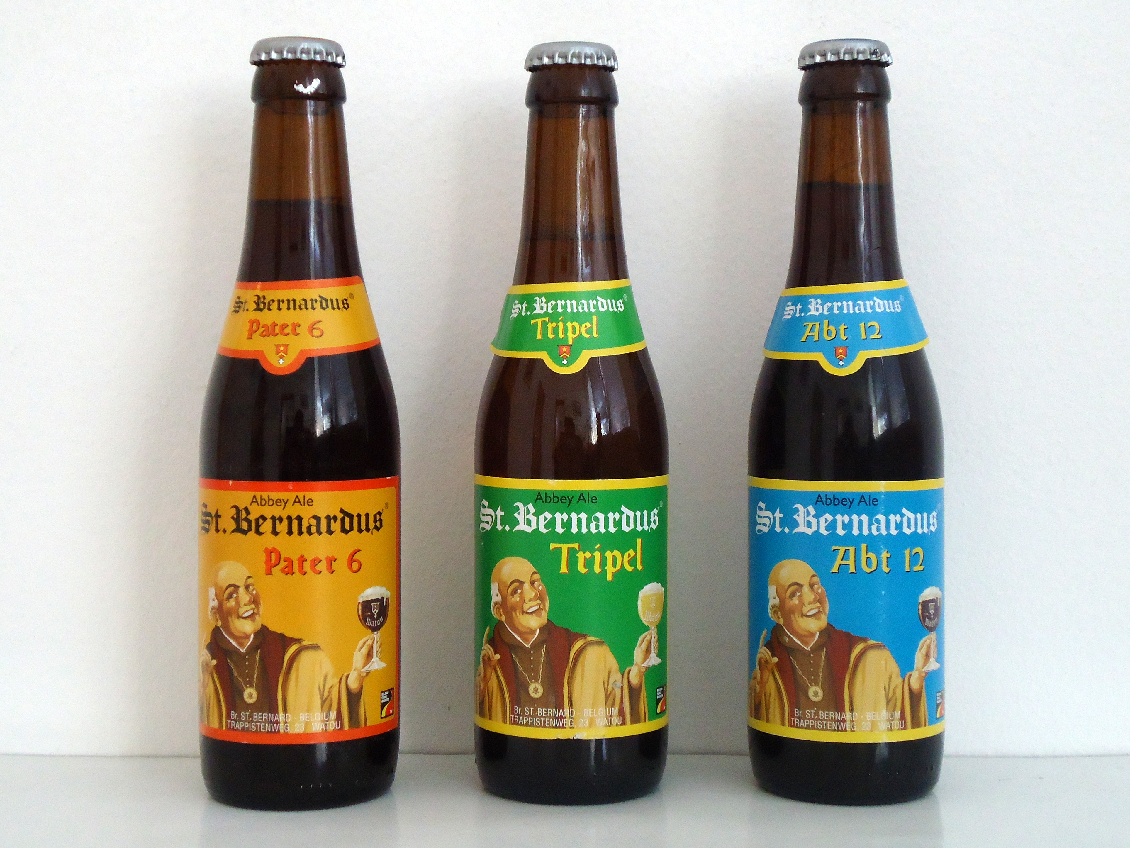 St. Bernardus 3 beer